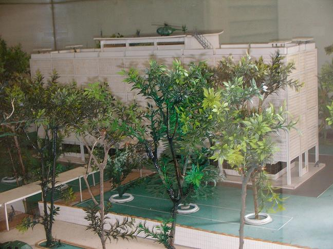 Model of US embassy (before 1975) in the Ho Chi Minh City Museum